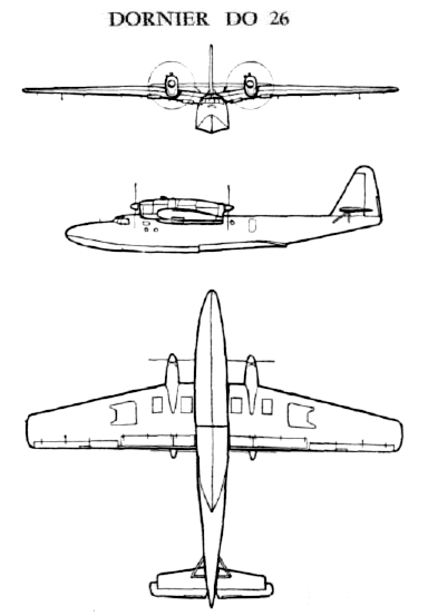 3-view drawings of the Dornier Do 26 flying boat.